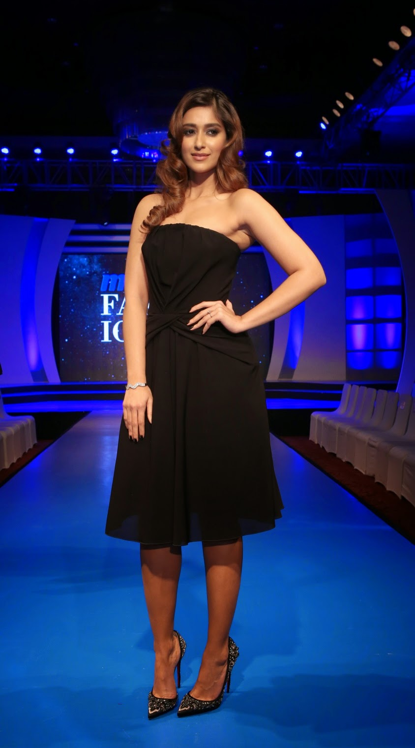 Ileana DCruz graces grand finale of Max Fashion Icon India 2015